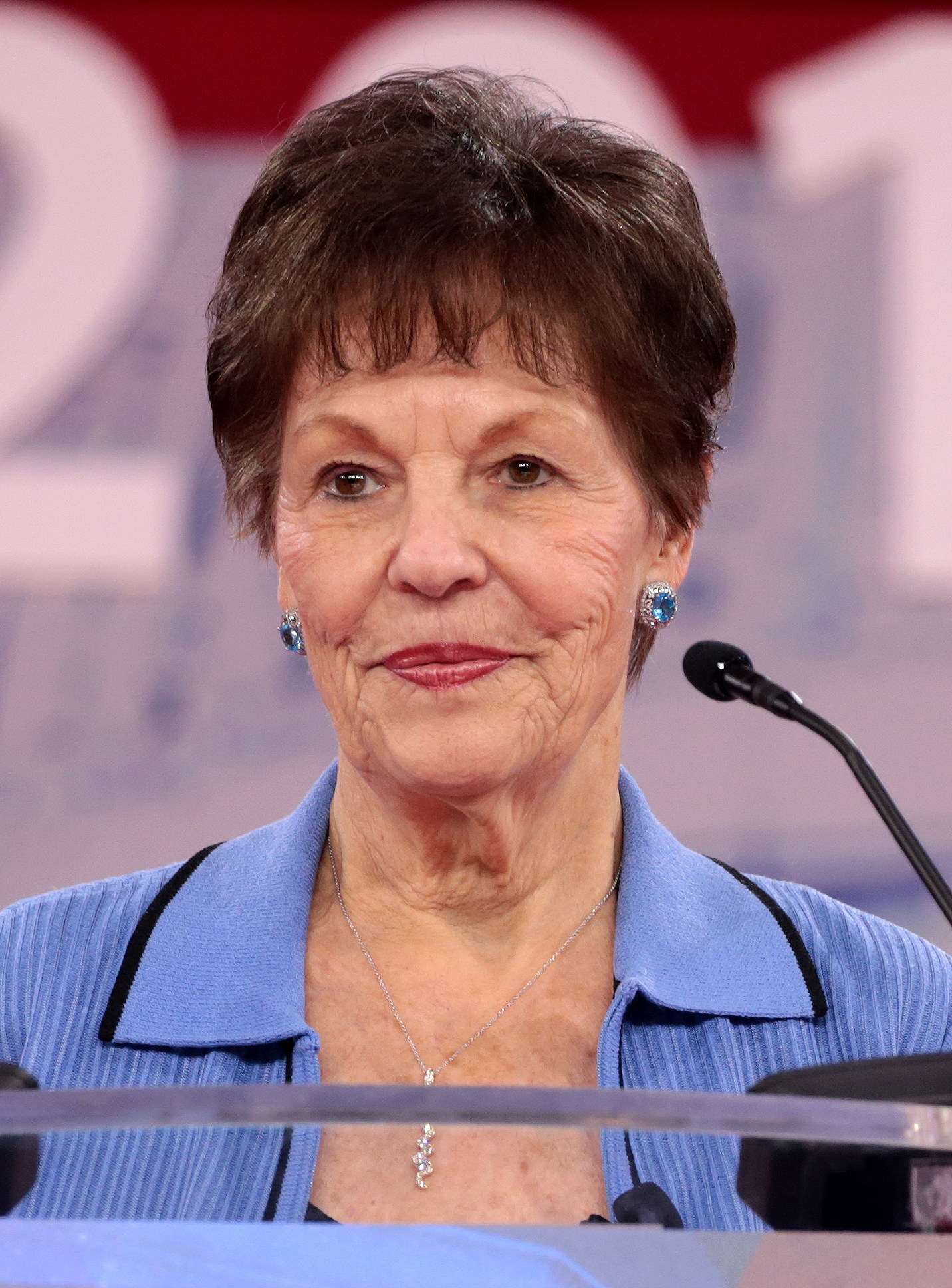 Carolyn D. Meadows speaking at the 2018 CPAC in National Harbor, Maryland.